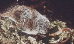 Masked Shrew from US NPS Source: U.S. National Park Service, Acadia National Park, Notes: "Information presented on this website, unless otherwise indicated, is considered in the public domain."